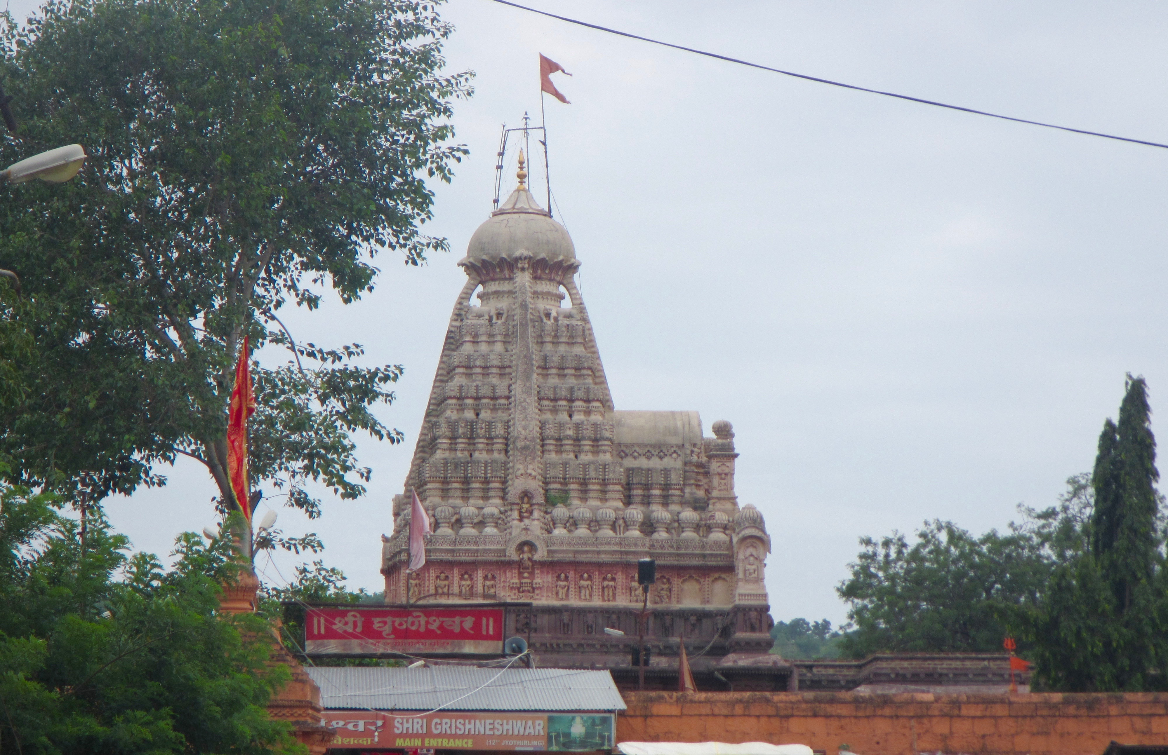 Shiva temple, originally built in 11th/12th century, destroyed by Delhi Sultanate, rebuilt after the fall of the Mughal Empire by the Marathas